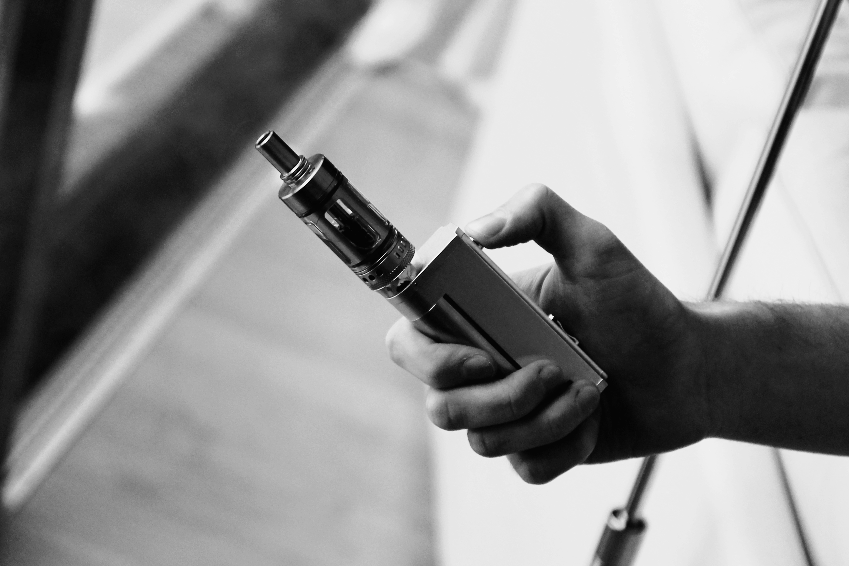 This image is released under Creative Commons. If used, please attribute a DOFOLLOW link to and not to our Flickr page. '